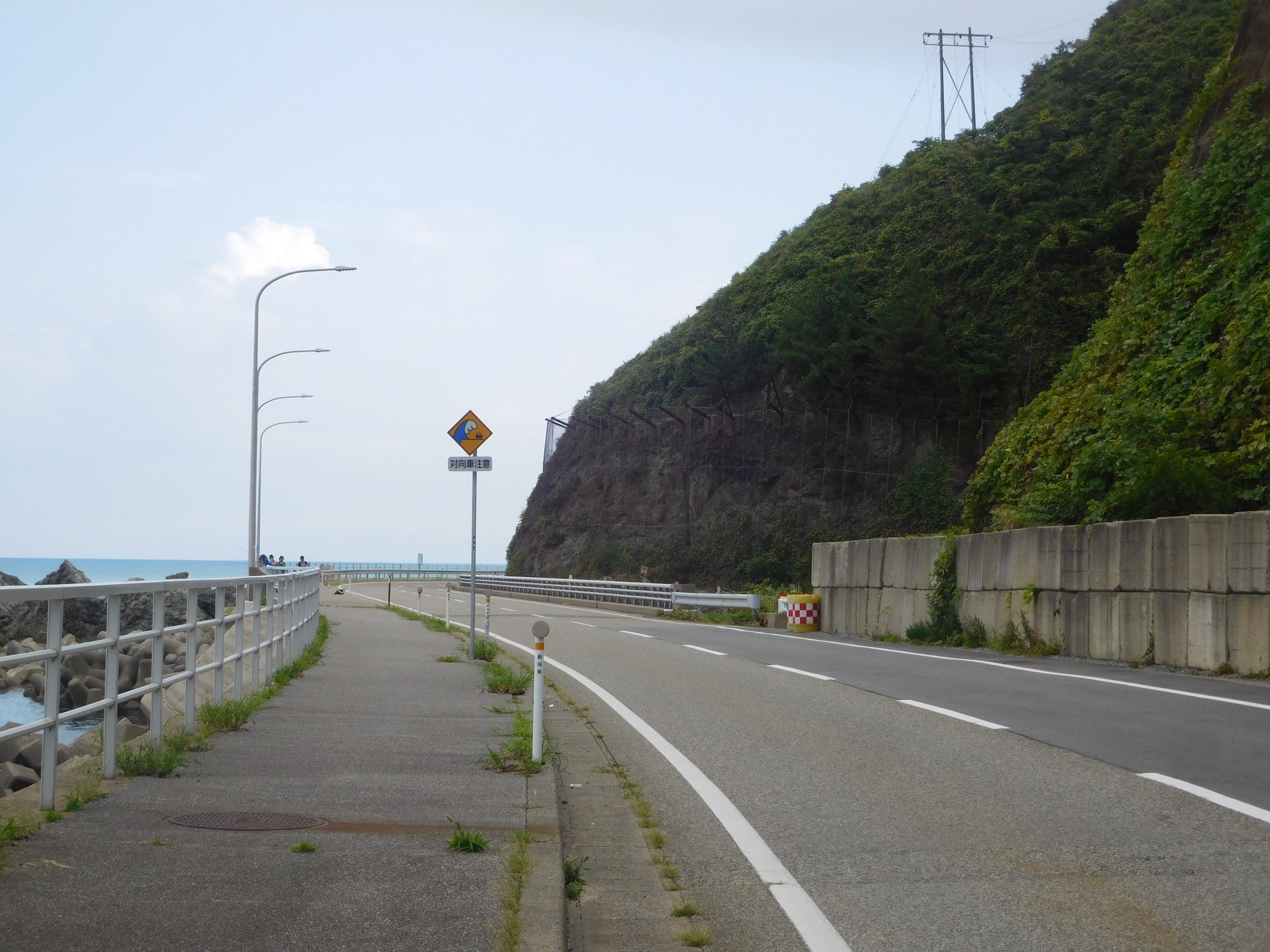 The National Route 345 at Ashidani, Murakami City, Niigata, Japan.